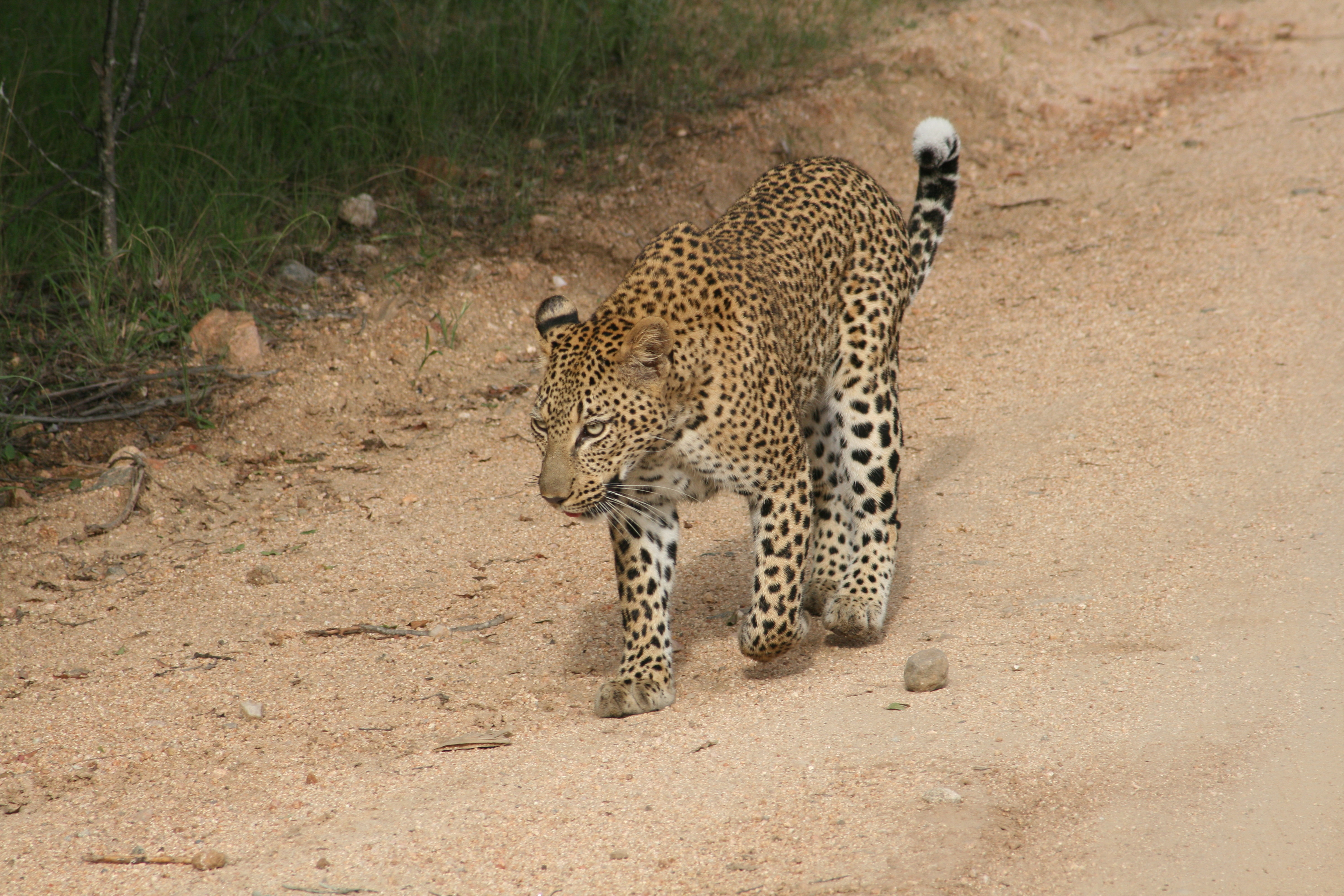 female Leopard, Panthera Pardus Pardus, walking on a road in the Sabi Sands Reserve, South Africa